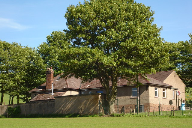 Rear aspect of Eassie School, Eassie, Angus